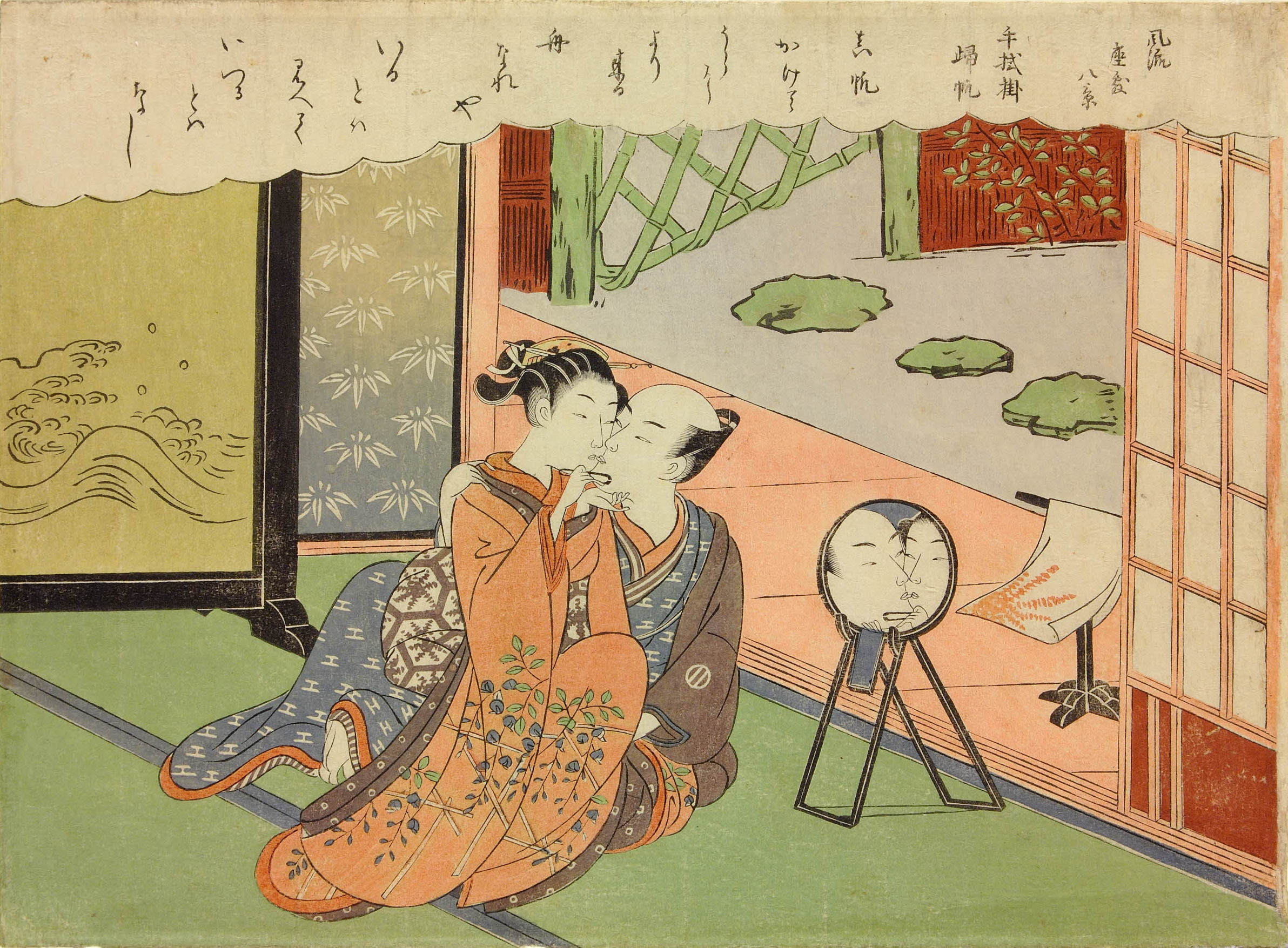 Ukiyo-e print from the Fūryū zashiki hakkei series. Cropped from File:Suzuki Harunobu - Fūryū zashiki hakkei - Tenuguikake no kihan (British Museum).jpg.